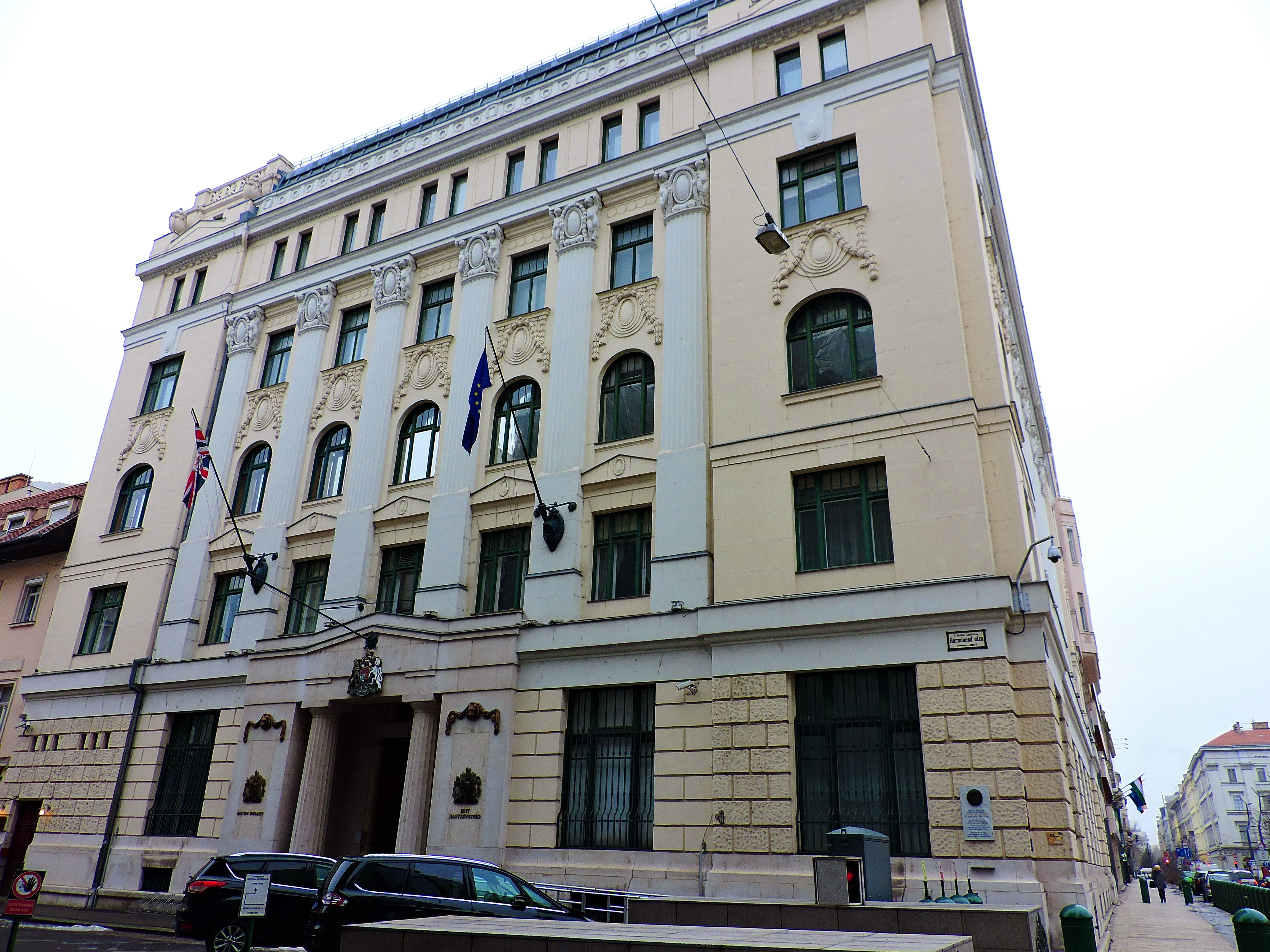 Former building of British Embassy in Budapest, Hungary (1963-2017)